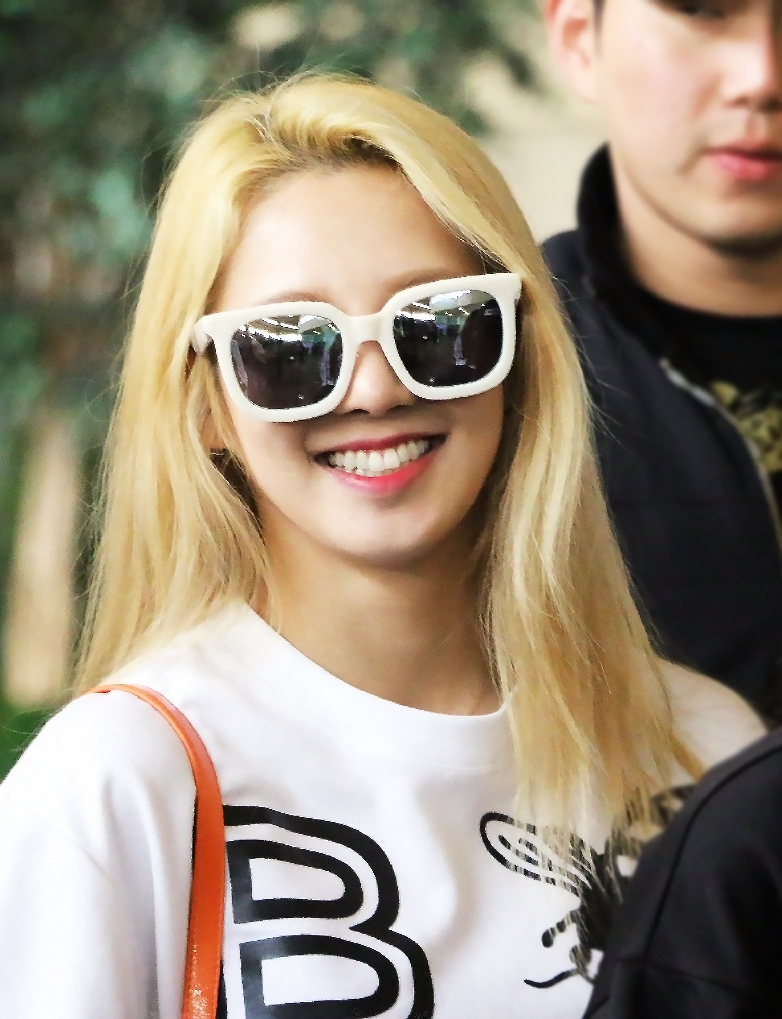 Hyoyeon at Gimpo International Airport on April 25, 2015.